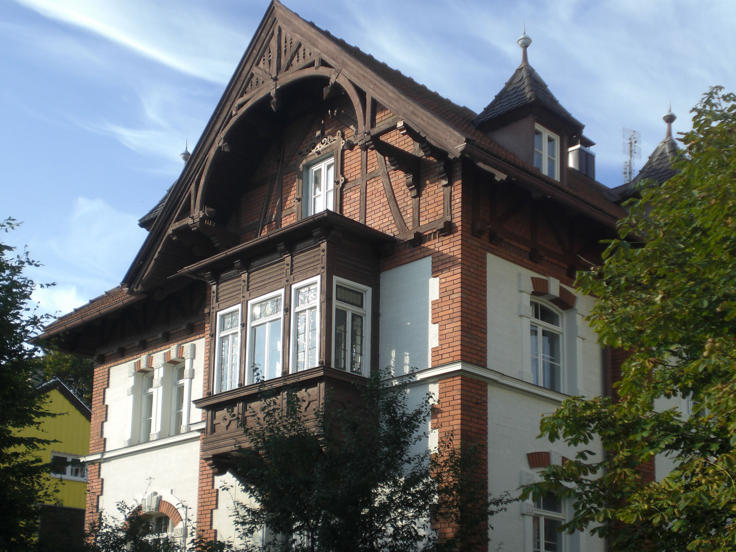 Dwelling House socalled Zeller Villa Holzkirchen Upper Bavaria, built 1902 red brickstone- white plaster contrasting look, richly ornamented framework gable roof with several pointed gables and tower dormers, frontside with wooden projecting alcoves with stained-glass windows.